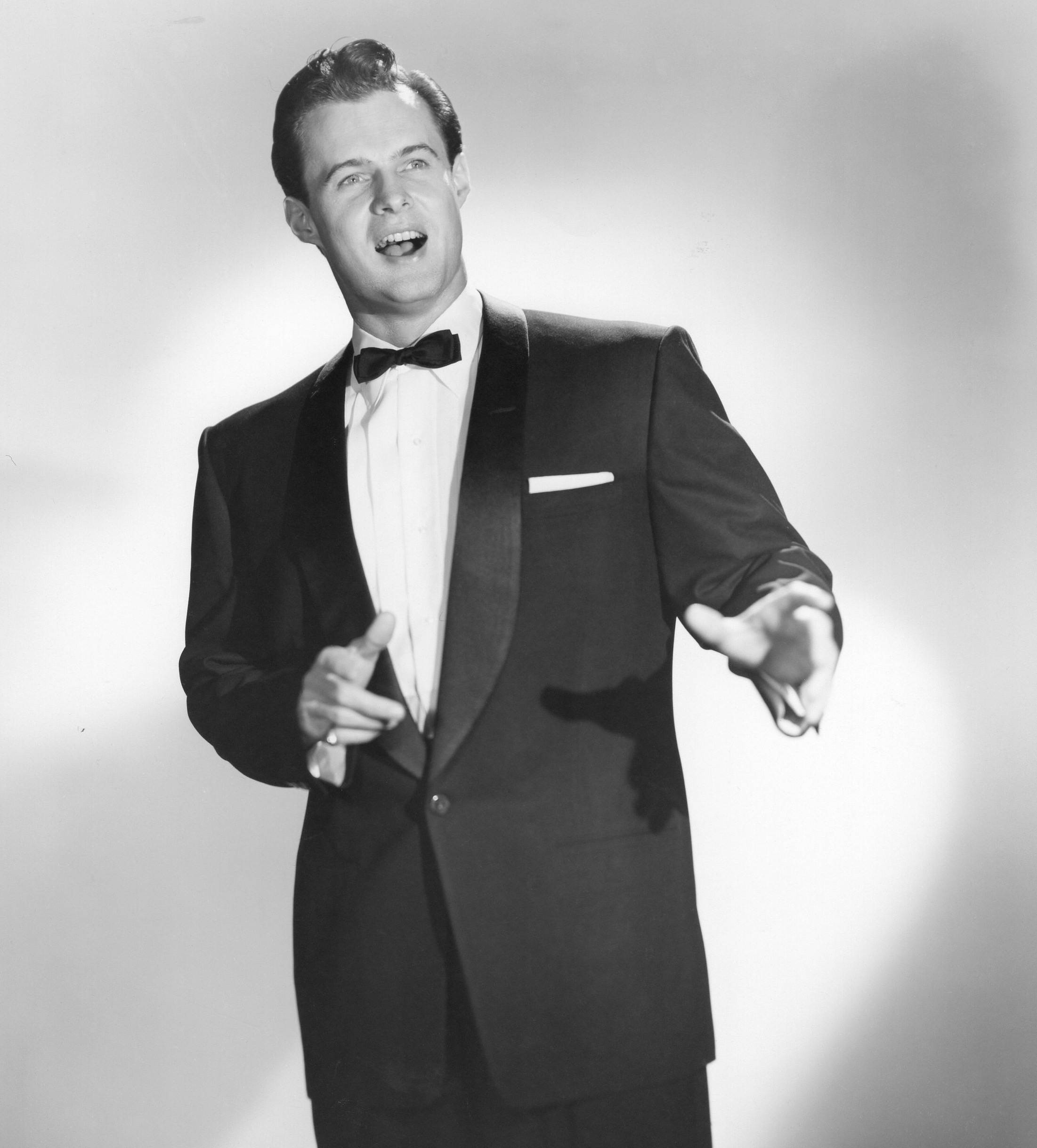 Claude Heater Broadway Open Arm Photo